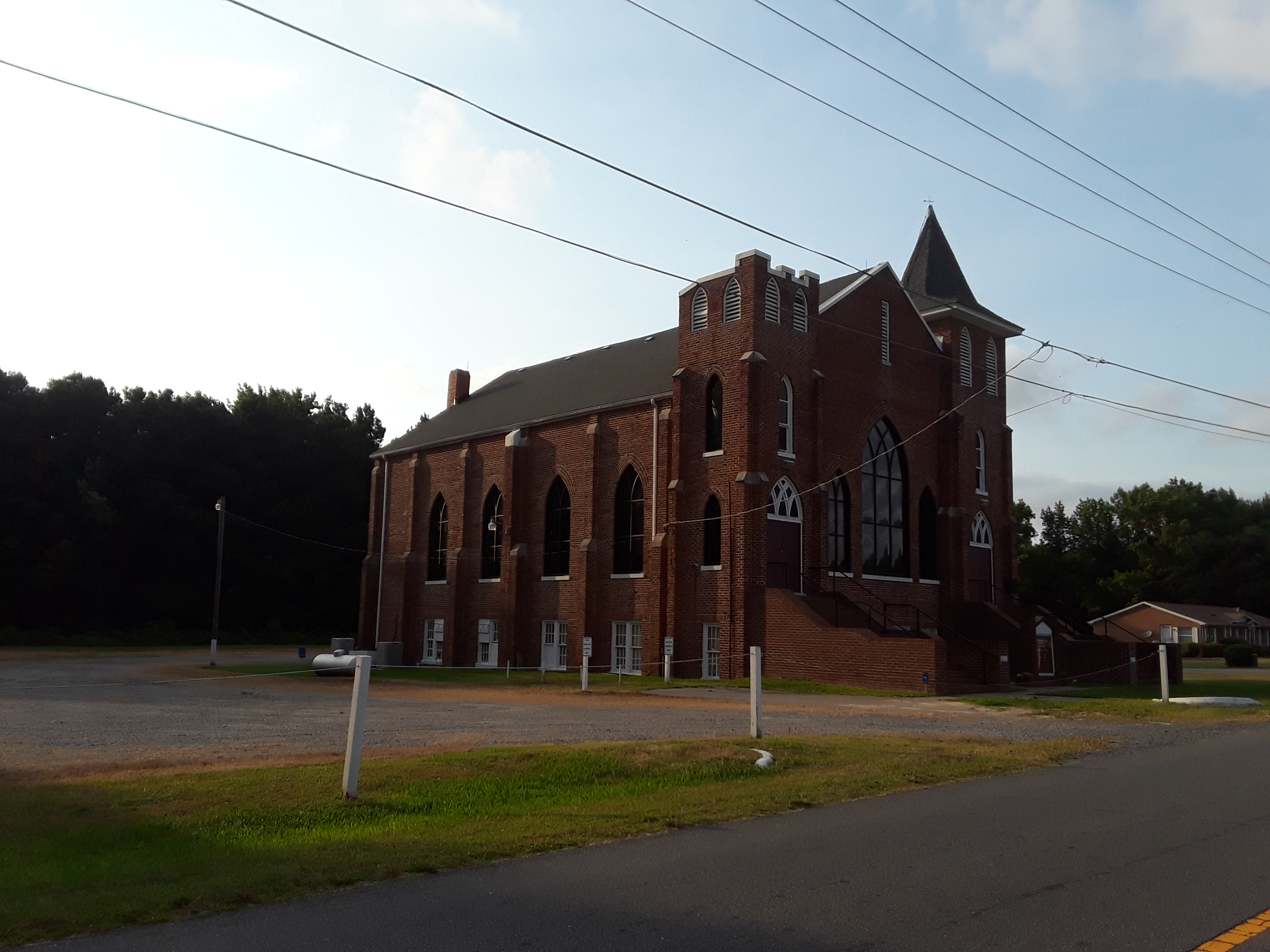 Taken on a visit to the Eastern Shore of Virginia, July 2018